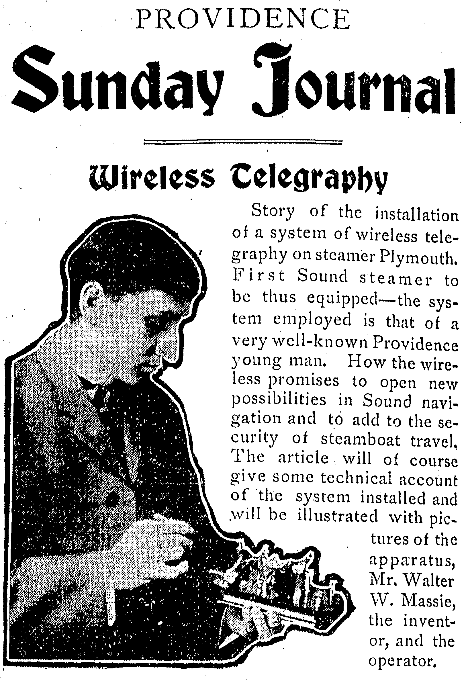 Feature article about Walter W. Massie and his wireless telegraphy system.